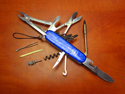 Swiss Army knife in wide open mode